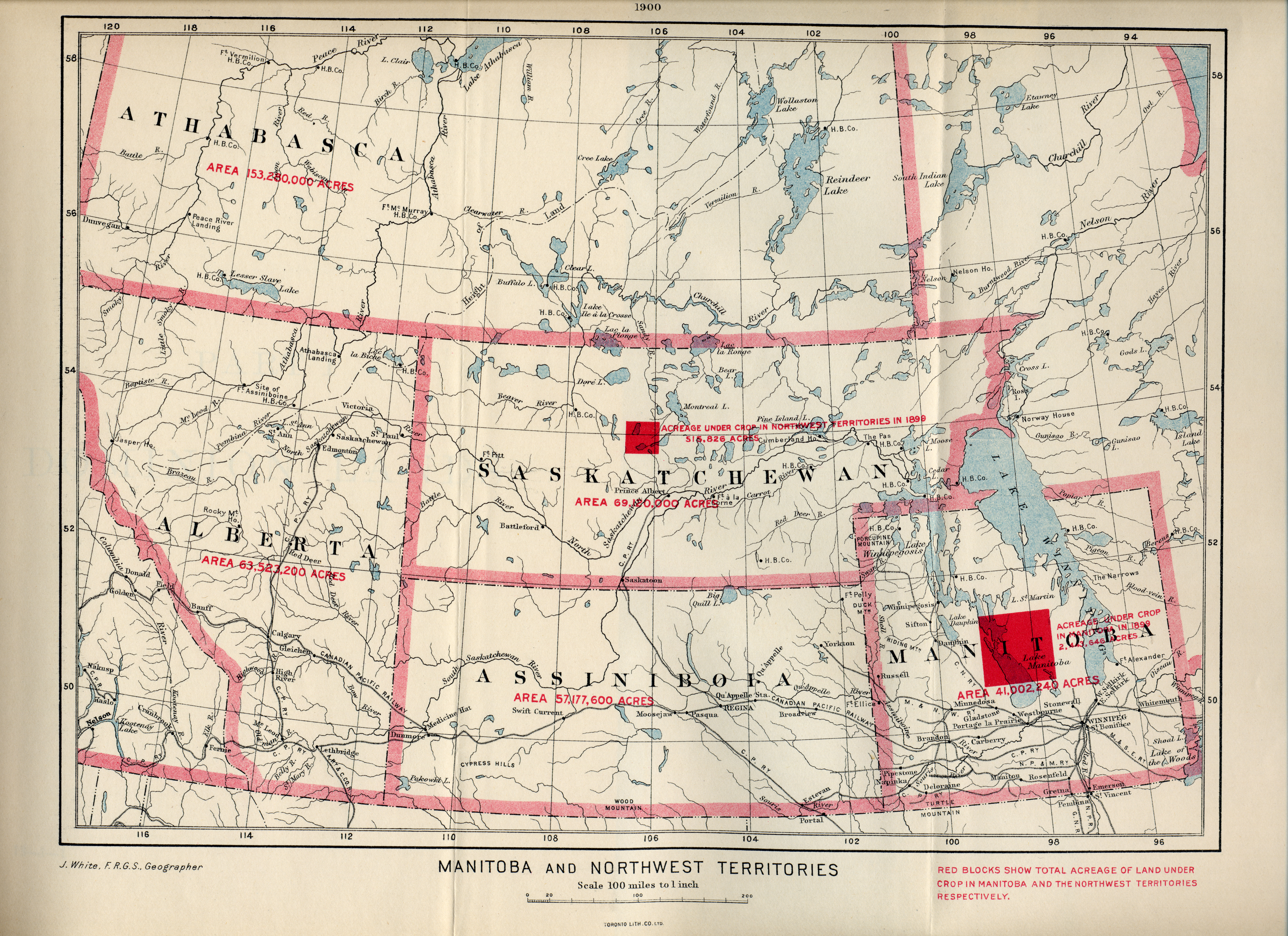 The following is the author's description of the photograph quoted directly from the photograph's Flickr page."White, James. Manitoba and Northwest Territories [map]. 1:950,400. [Ottawa]: Dept. of the Interior, 1900. Red blocks show total acreage of land under crop in Manitoba and the Northwest Territories respectively. Shows size, in acres the areas of Athabasca, Alberta, Saskatchewan, Assiniboia and Manitoba in 1900.Source: University of Manitoba : Elizabeth Dafoe Library : Map Collection "